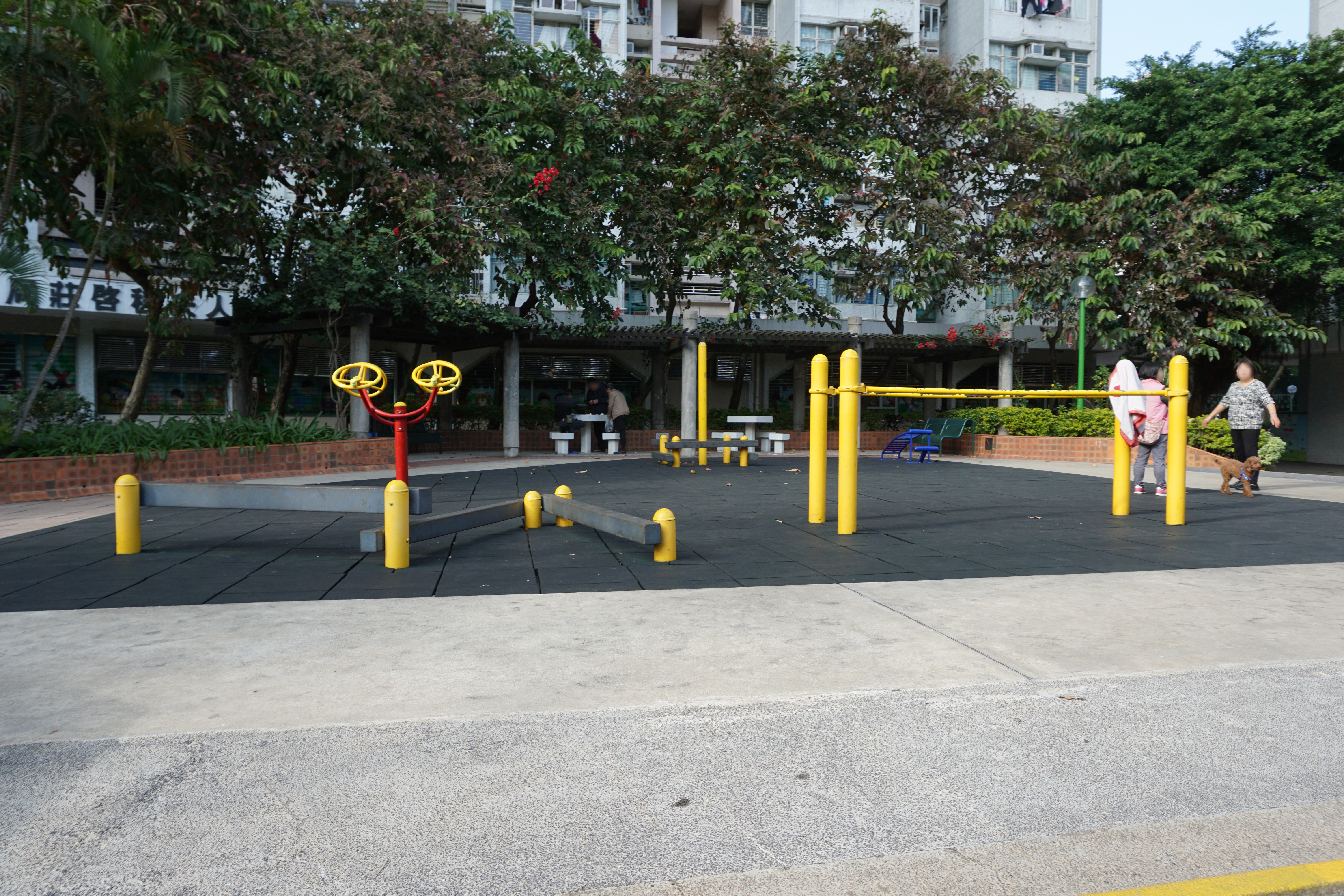 Wah Ming Estate in Fanling, Hong Kong.